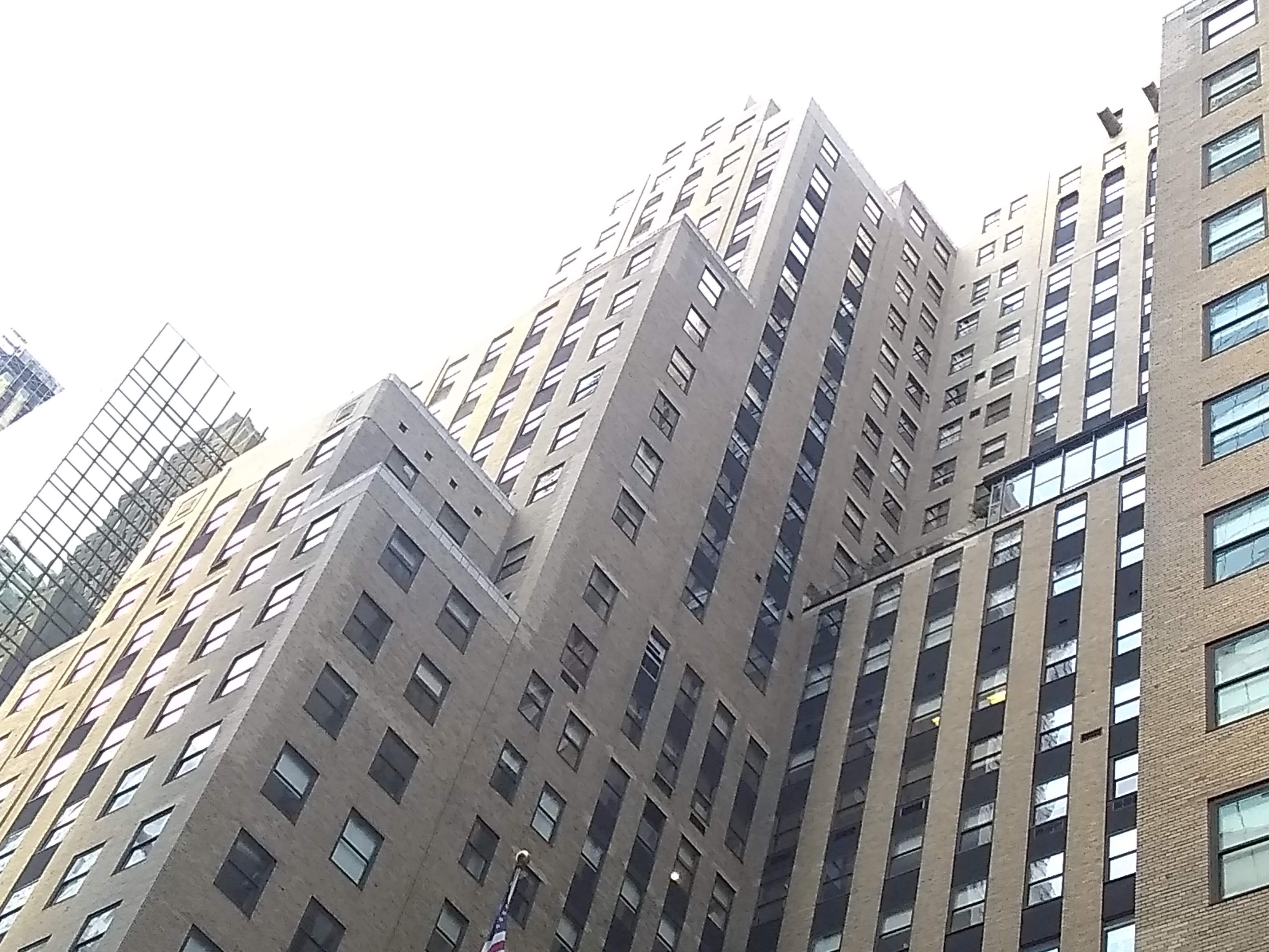 Exterior of the Graybar Building in Manhattan, New York